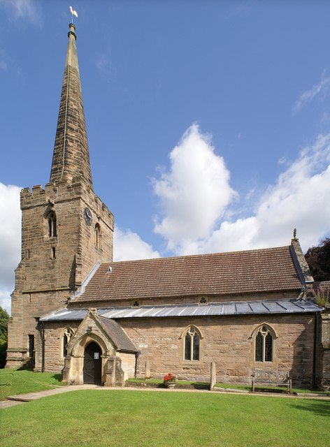 Epperstone parish church Sorry about the distortion but there is no 'long view'. 2 landscape photos stitched vertically. I was surprised at the size of the graveyard which is the other side of the church. Well worth a visit, old yew trees and some good Gray's Elegy stuff!